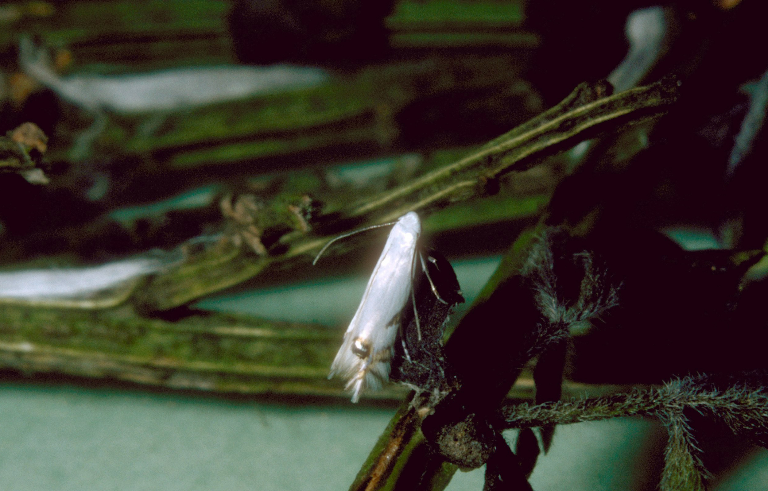 Leucoptera spartifoliella